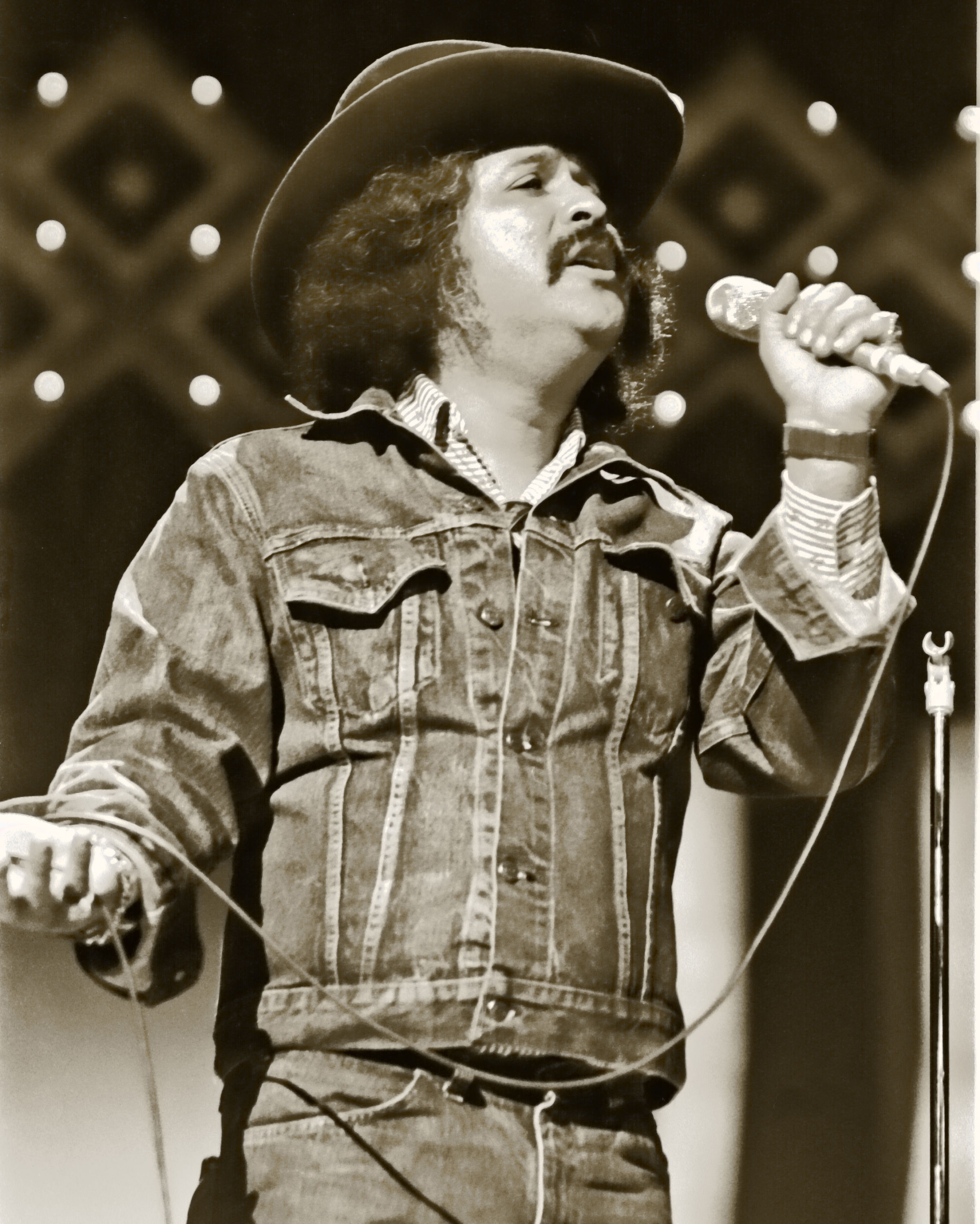 Freddy Fender in Nashville, Tennessee after the The Johnny Cash Show in 1977.